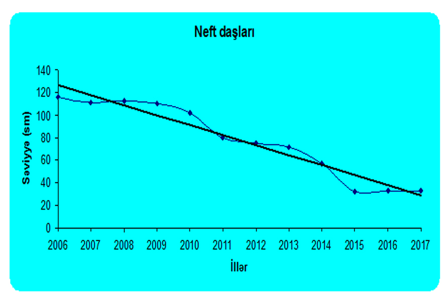 The price levels for years at Neft Dashlari sea hydrometeorological station